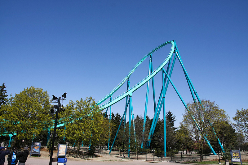 This is a photo of the hammerhead turn of the Leviathan roller coaster at Canada's Wonderland.